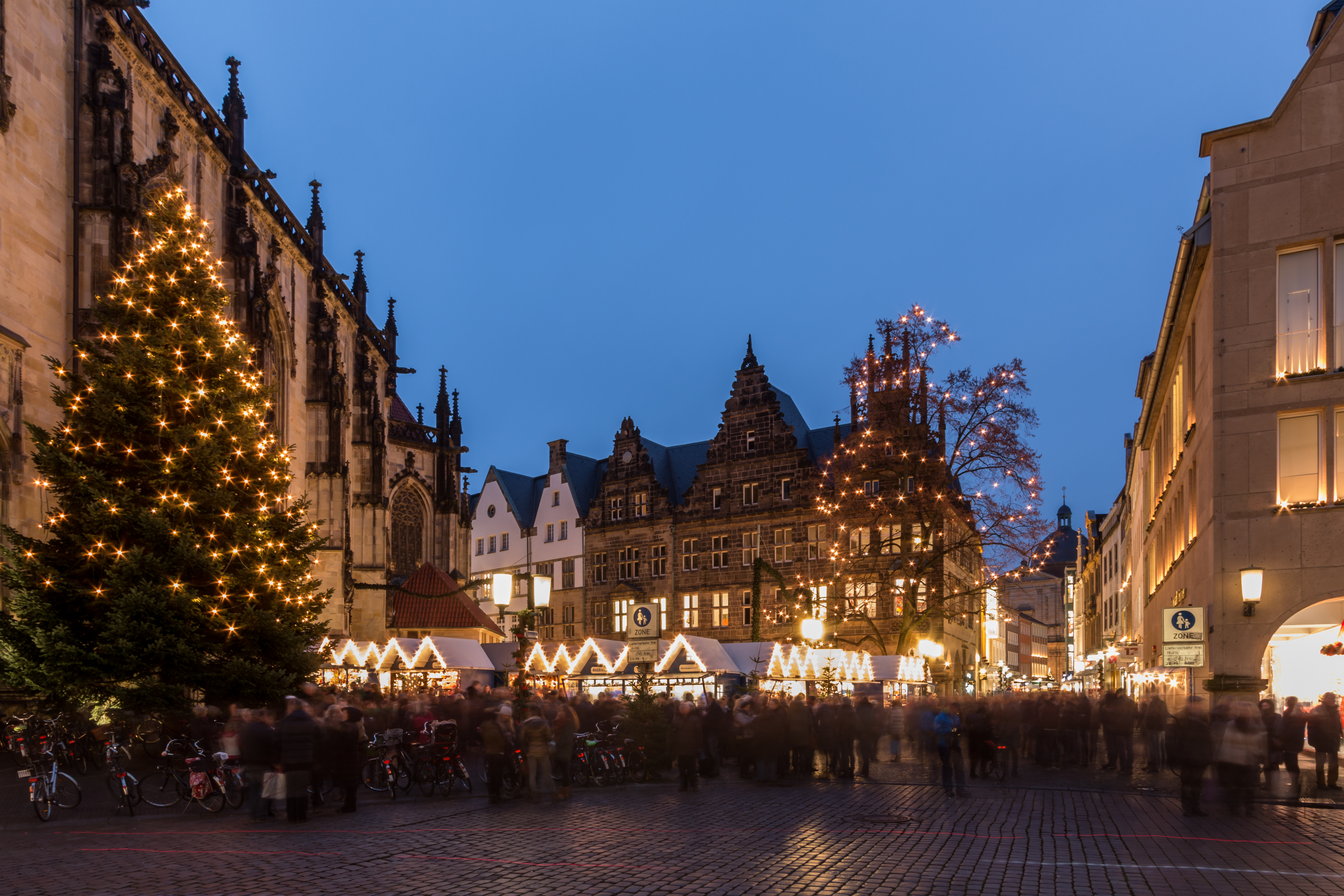 Christmas market at the Lambertikirchplatz, Münster, North Rhine-Westphalia, Germany